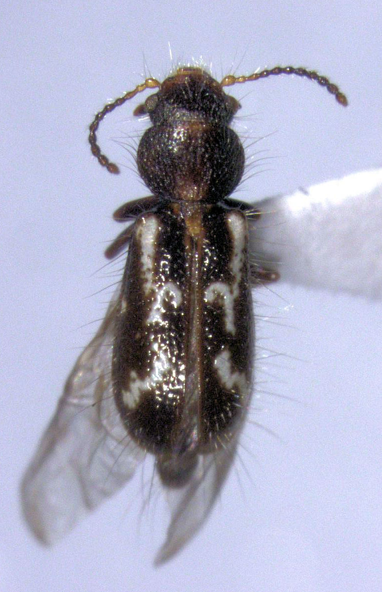 adult Metaxina ornata